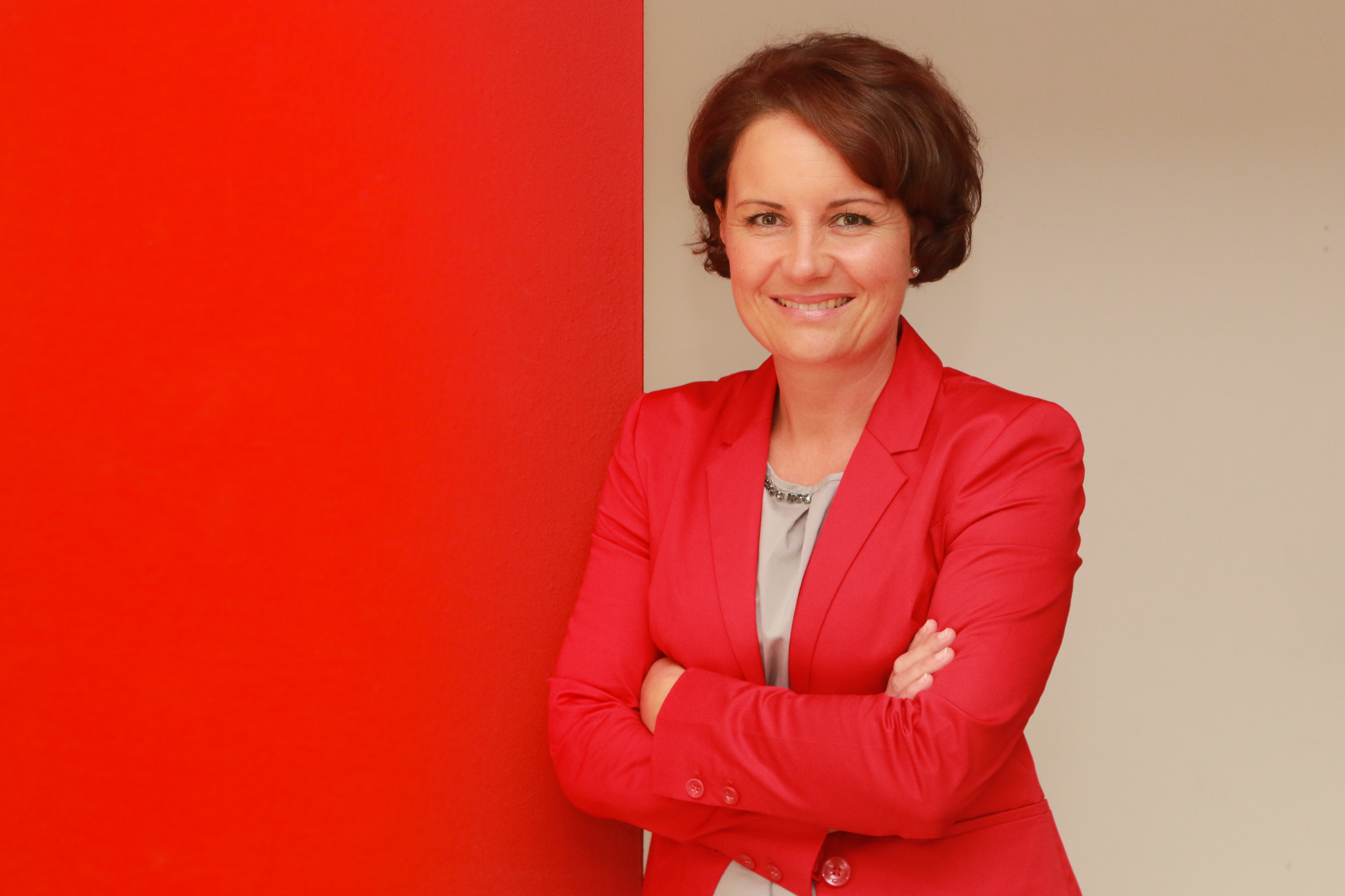 Conny Ecker